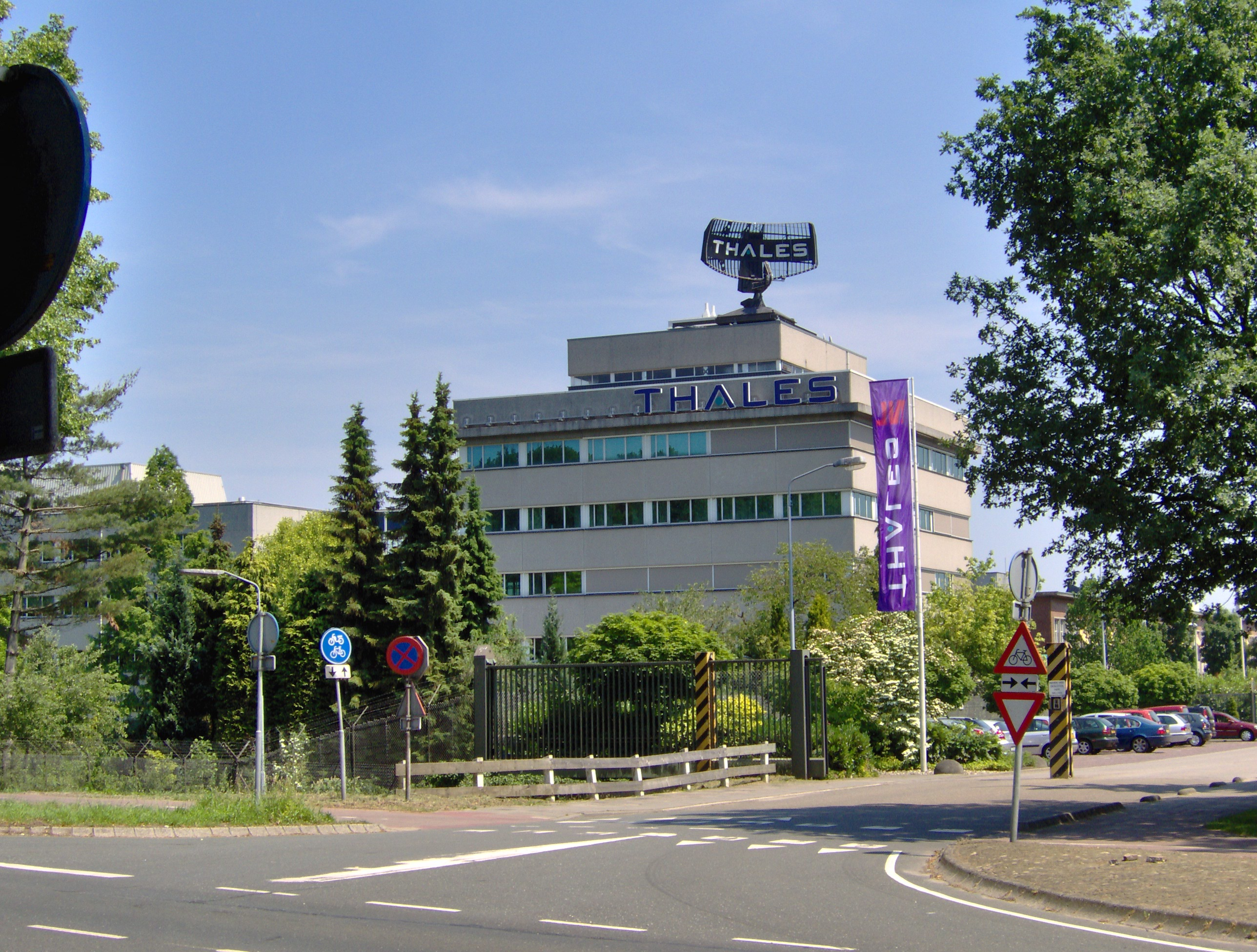 Thales building, location: Hengelo (Overijssel), Netherlands, keywords: Radar, HSA, Hollandse Signaal Apparaten, Signaalapparaten, Thales